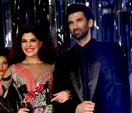 Jacqueline Fernandez & Aditya Roy Kapur walk for Manish Malhotra at Lakme Fashion Week 2017